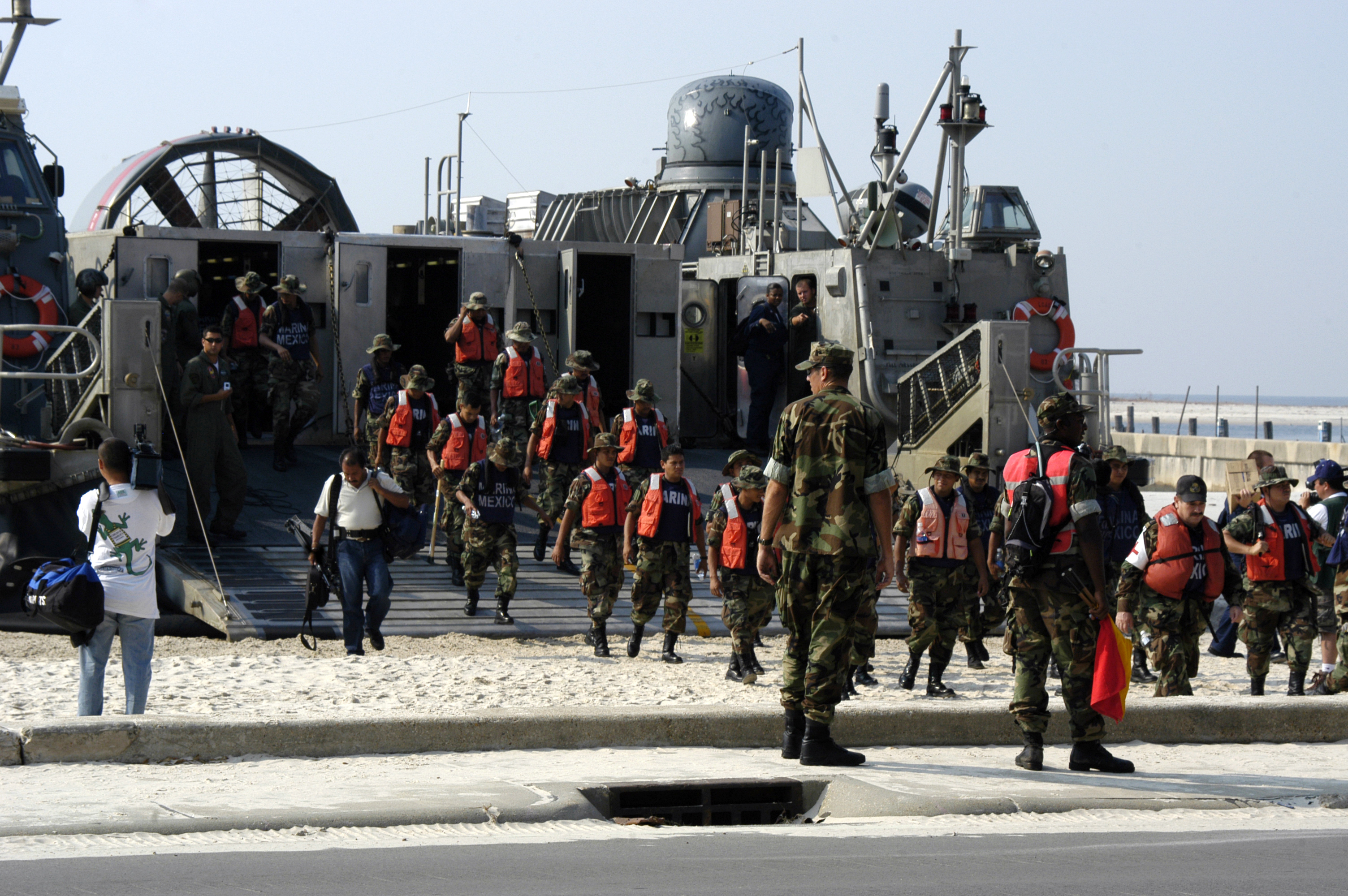 Biloxi, Miss. (Sept. 10, 2005) - Mexican Sailors assigned to the Mexican amphibious ship ARM Papaloapan (P-411) debark a U.S. Navy Landing Craft, Air Cushion (LCAC) as they prepare to work on rehabilitation projects in the Biloxi, Miss. area. The Mexican Navy is assisting the U.S. Navy in providing humanitarian assistance to victims of Hurricane Katrina. The Navy's involvement in the humanitarian assistance operations is being led by the Federal Emergency Management Agency (FEMA), in conjunction with the Department of Defense. U.S. Navy photo by Photographer's Mate Airman Pedro A. Rodriguez (RELEASED)